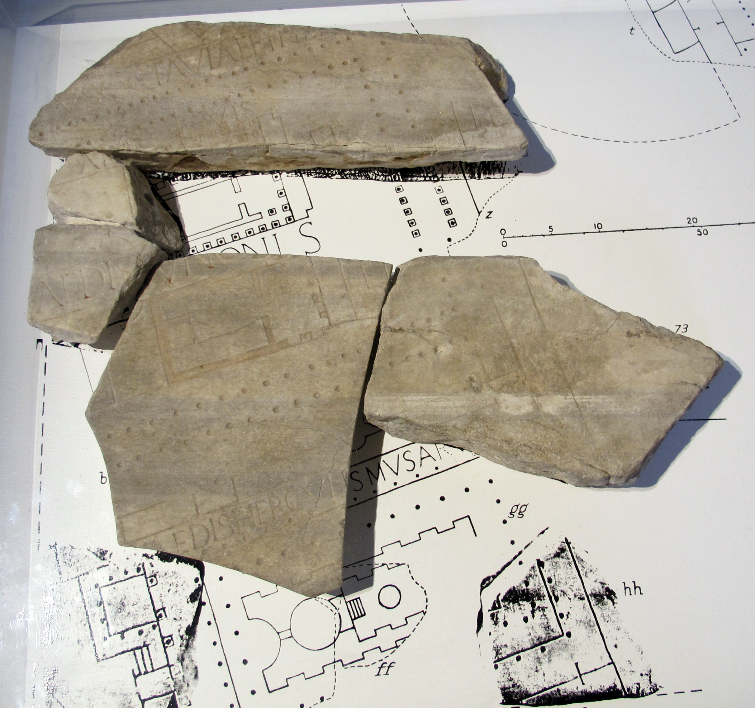 Ancient Libraries Exhibition (Colosseum, 2014)